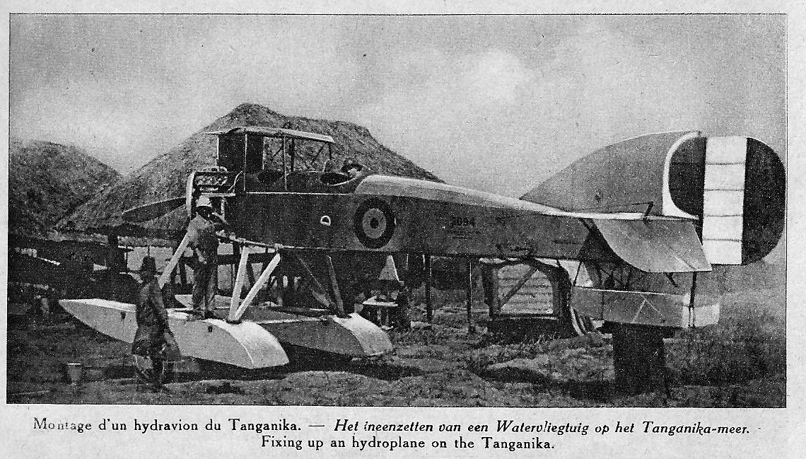 Reassembling a hydroplane near the shores of Lake Tanganika, c. 1916.